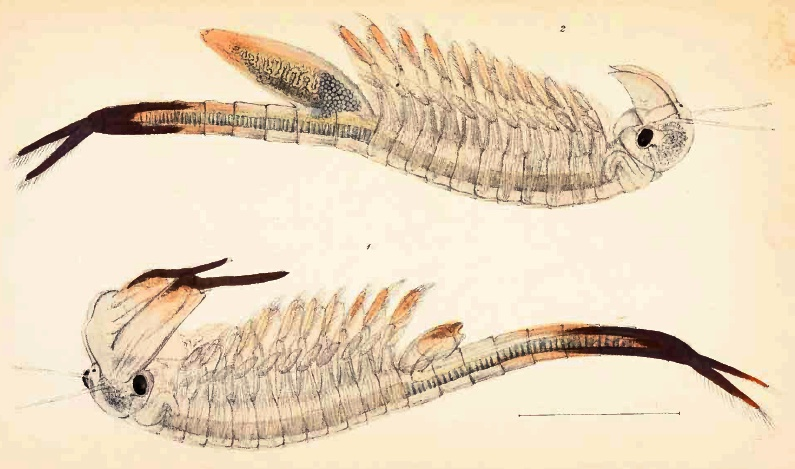 Chirocephalus diaphanus: female (top) and male (bottom)